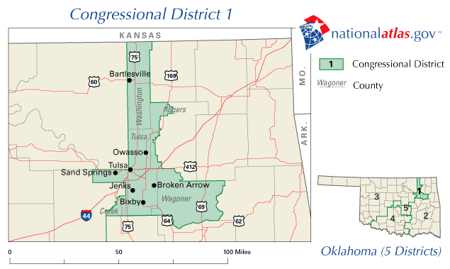 Oklahoma District 1. Image adapted from US fed gov't source